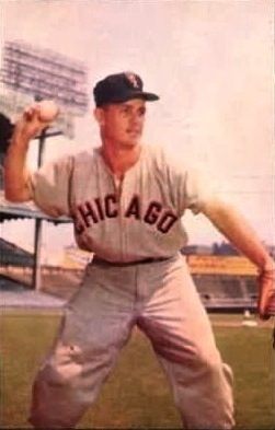 Chicago White Sox second baseman Nellie Fox. Levels and saturation adjusted.